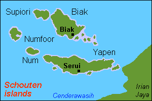 Map (rough) of Schouten islands, Papua New Guinea, own work composed from various mapreferences